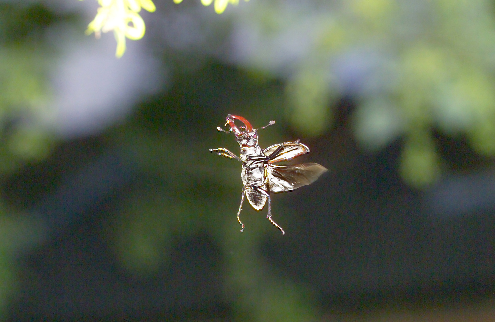 Flying Stag Beetle (Lucanus)